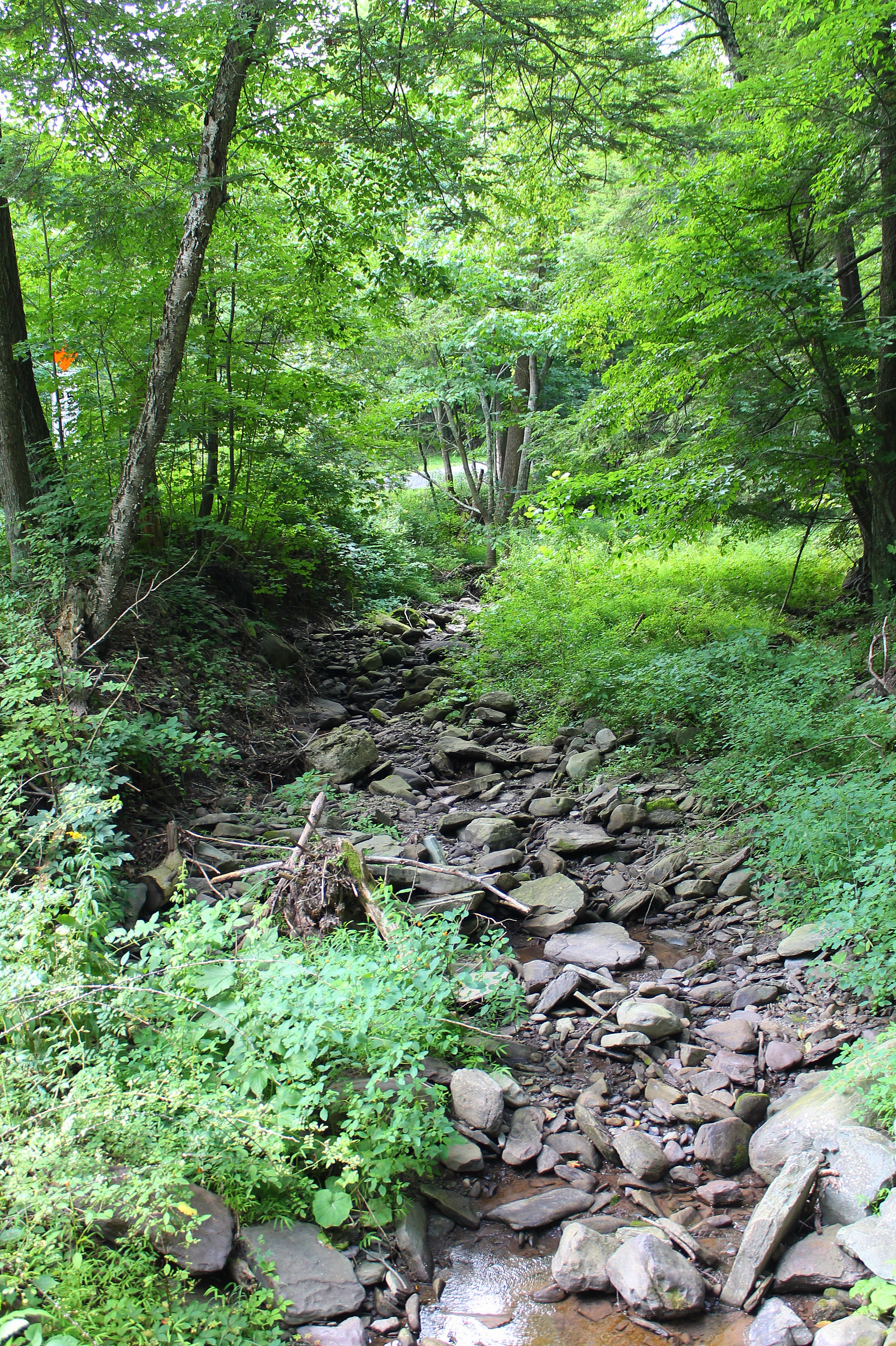 Thurston Hollow, a tributary of Moneypenny Creek in Wyoming County, Pennsylvania, looking upstream near its mouth.